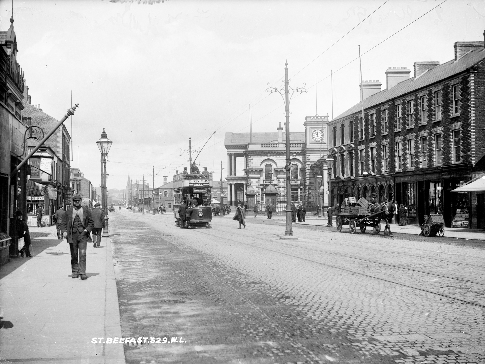 Thanks to everyone for confirming that this wasn't the Great Northern Railway Station in Belfast as it said in our catalogue, but rather York Road Railway Station! Really love the chap striding towards the camera - he looks like a docker? (Re-reading Strumpet City at the moment for Dublin: One City, One Book so that may be influencing me). Date: Circa 1907? NLI Ref.: L_ROY_00329